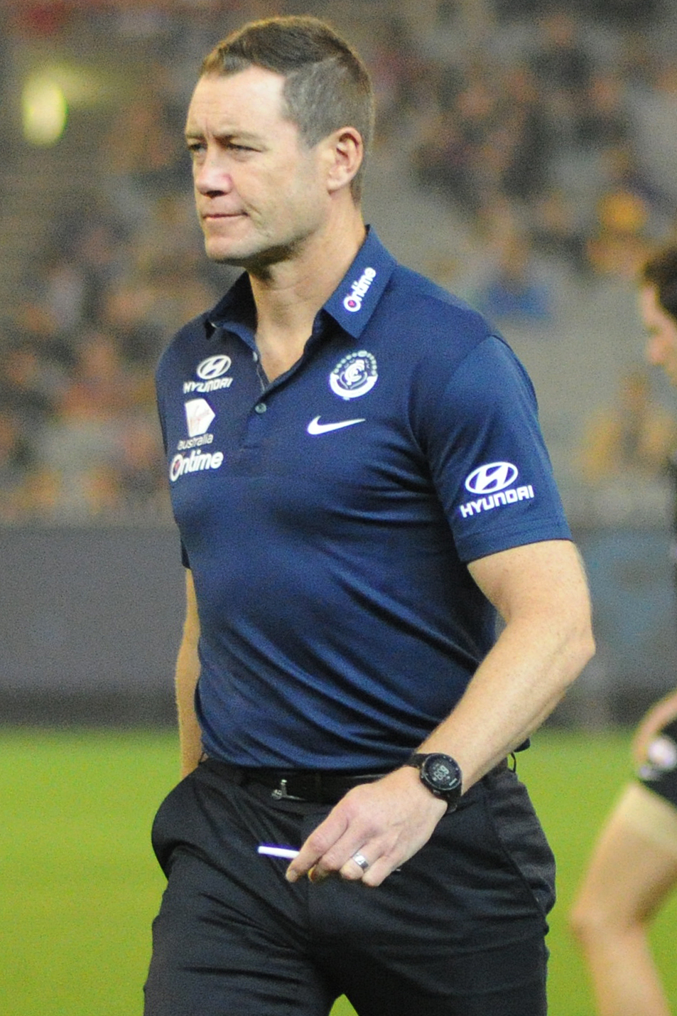 John Barker during the AFL round five match between Carlton and West Coast on 21 April 2018 at the Melbourne Cricket Ground in Melbourne, Victoria.